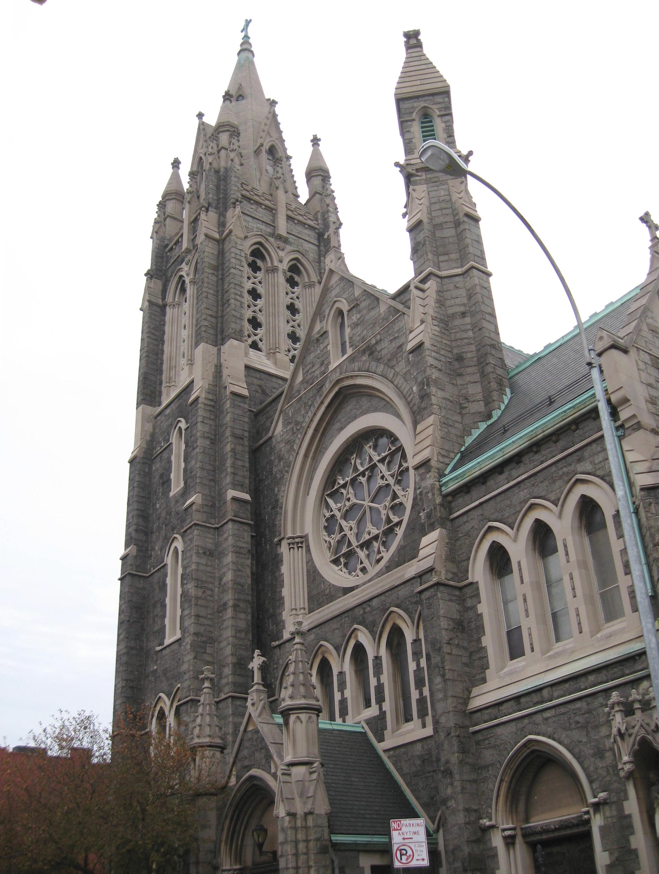 Looking north at Church of Saint Agnes on a cloudy afternoon in Carroll Gardens, Brooklyn